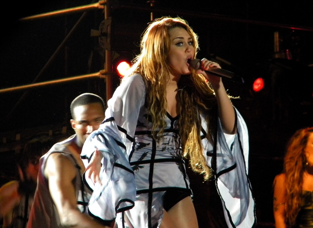 Pop singer Miley Cyrus performing in São Paulo, Brazil as part of her Gypsy Heart Tour in 2011.